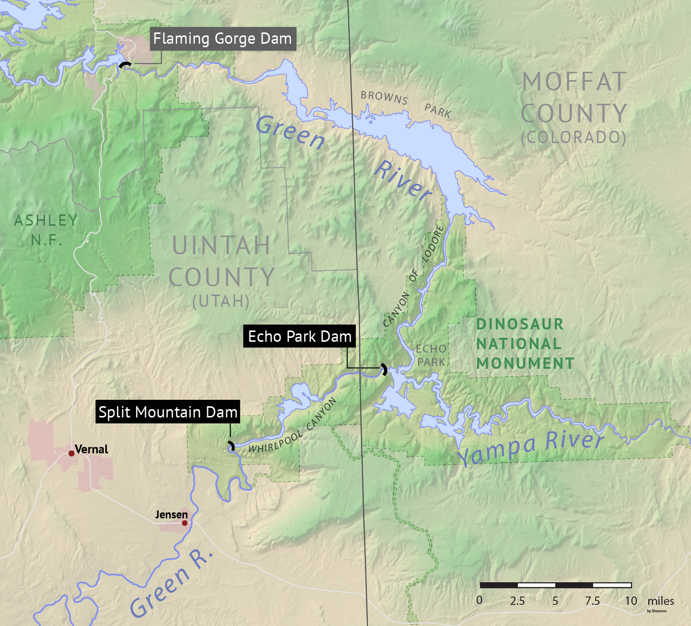 Map showing the proposed Echo Park and Split Mountain reservoirs along the Green River, Colorado and Utah. The 1960s proposal would have flooded much of Dinosaur National Monument. Created using USGS digital elevation data, with Echo Park reservoir shown at the 5500' (1700m) contour and Split Mountain at 5048' (1539m). Flaming Gorge Dam, which was later built in place of Echo Park and Split Mountain, is in the upper left corner.